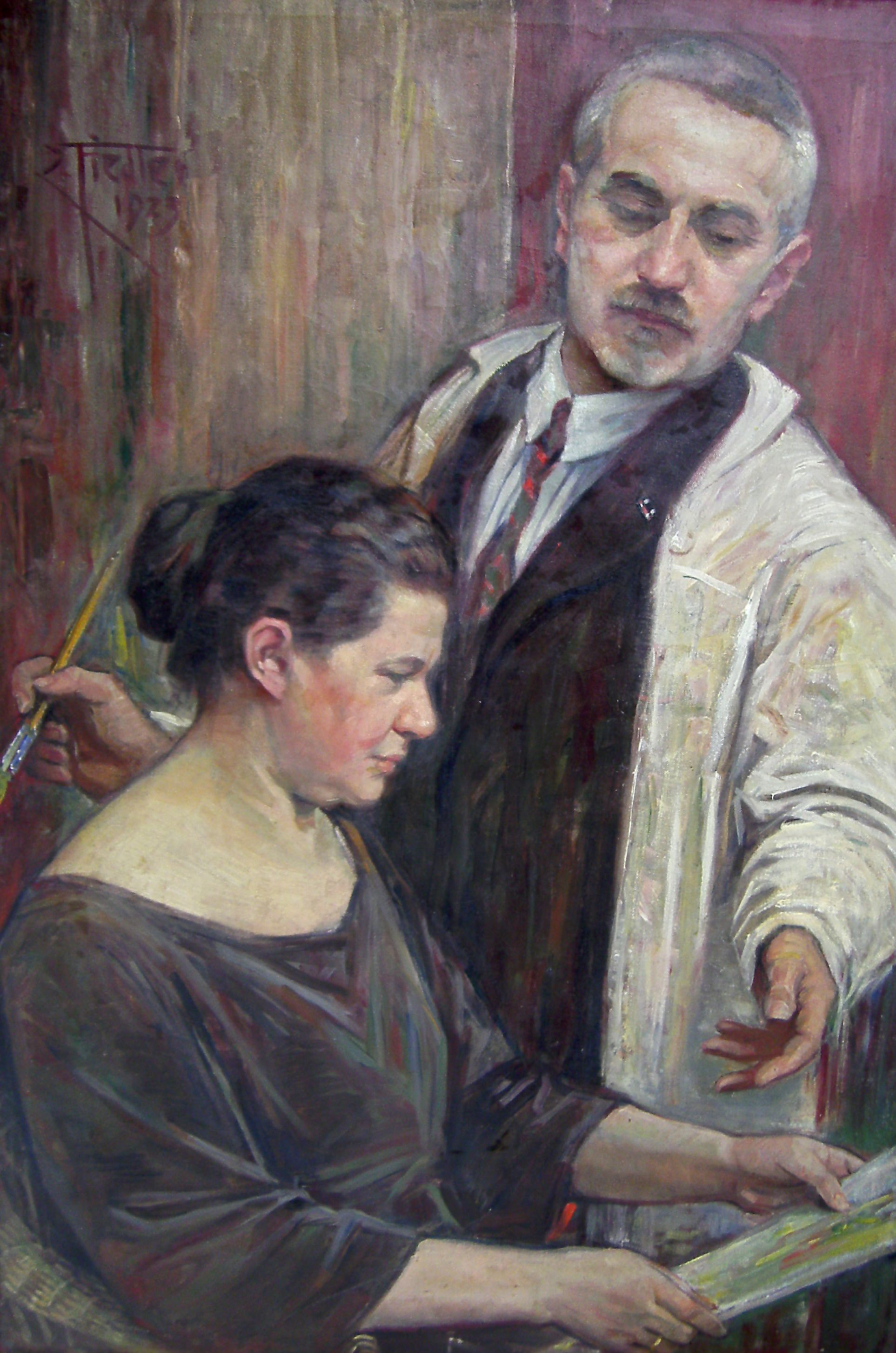 Eduard Fiedler (Maler) and his wife in 1923